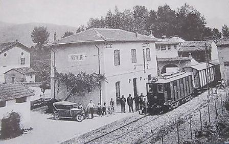 Prevalle railway station